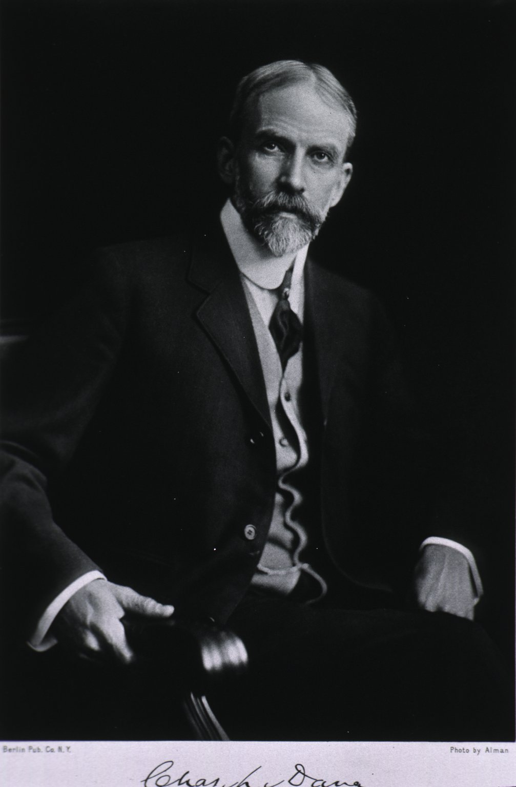 Charles L. Dana